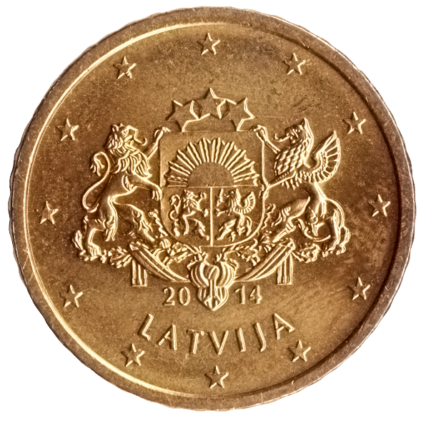 Latvian euro cent coin featuring Coat of arms of Latvia